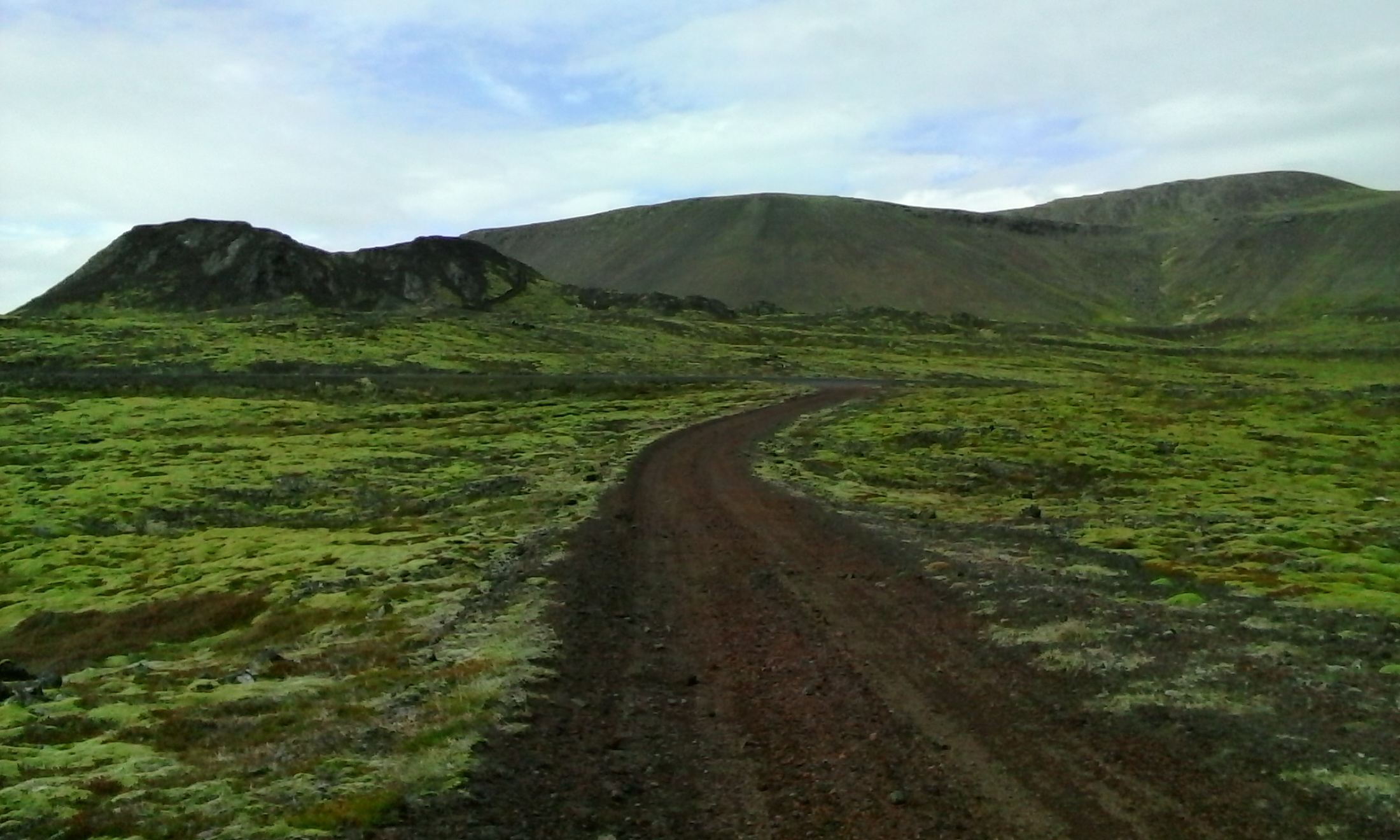 Eldborg near Krýsuvík, Iceland